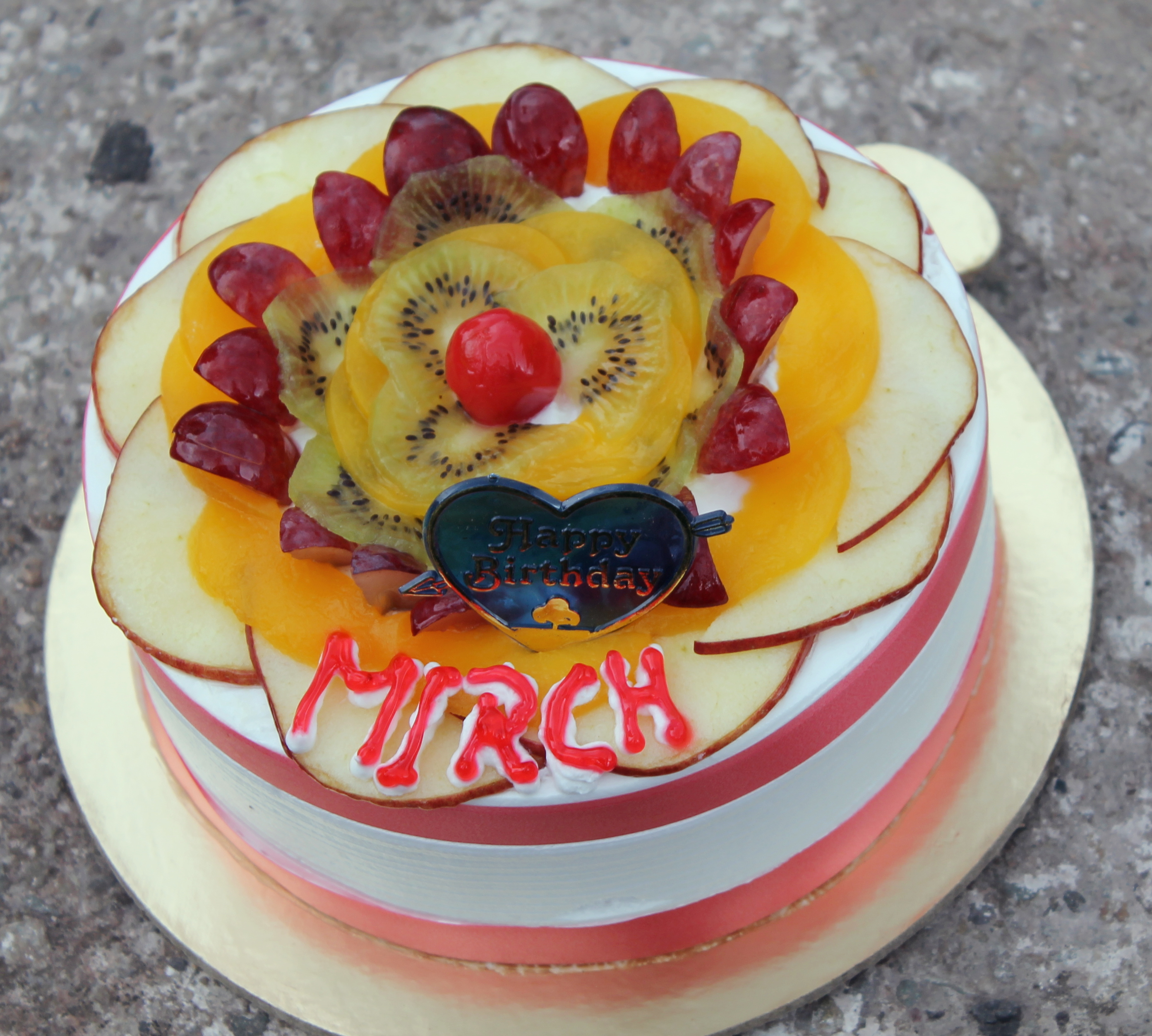 fruit cake